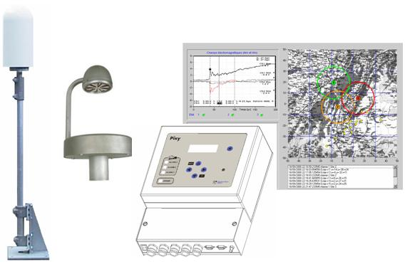 Set of storm detector hardware and software